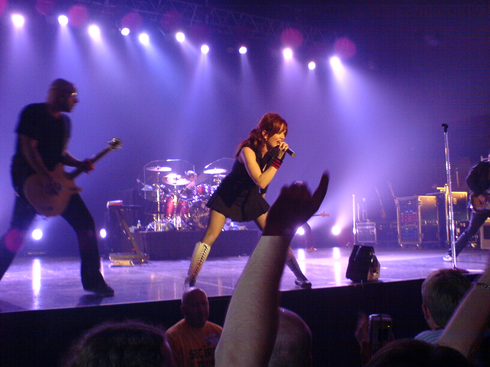 Garbage live i KB Hallen, Copenhagen, Denmark ("bleed like me tour"). June 1, 2005.